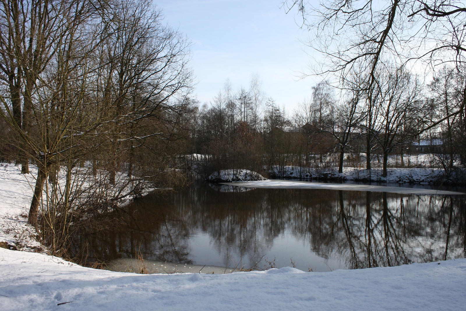 49549 Ladbergen Germany Friedenspark - Mühlenbach